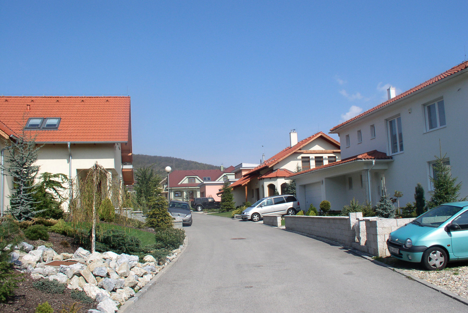 Slovakia – Briežky, Bratislava. The new neighbourhood unit